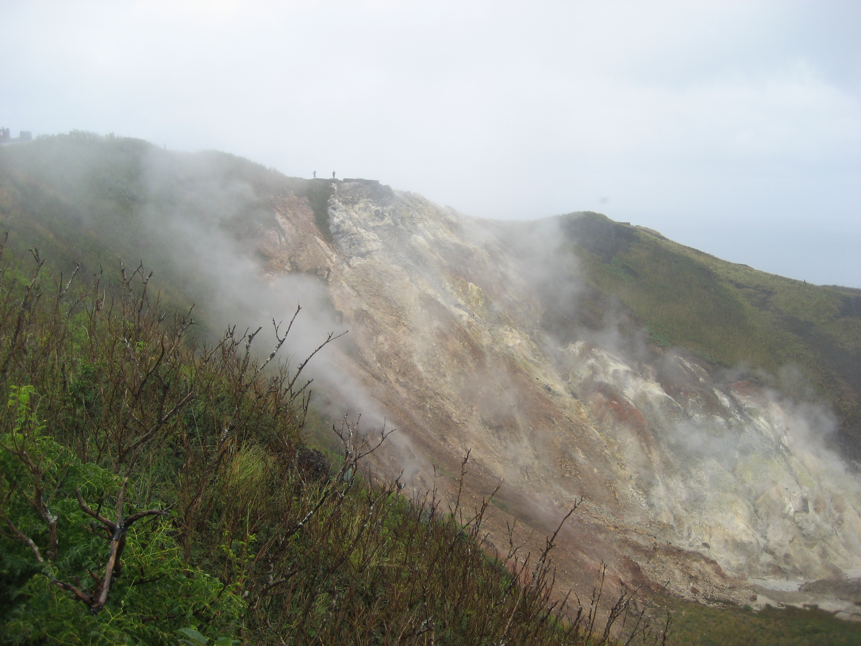 Gases rising from Mount Suribachi's volcano crater in Iwo Jima.